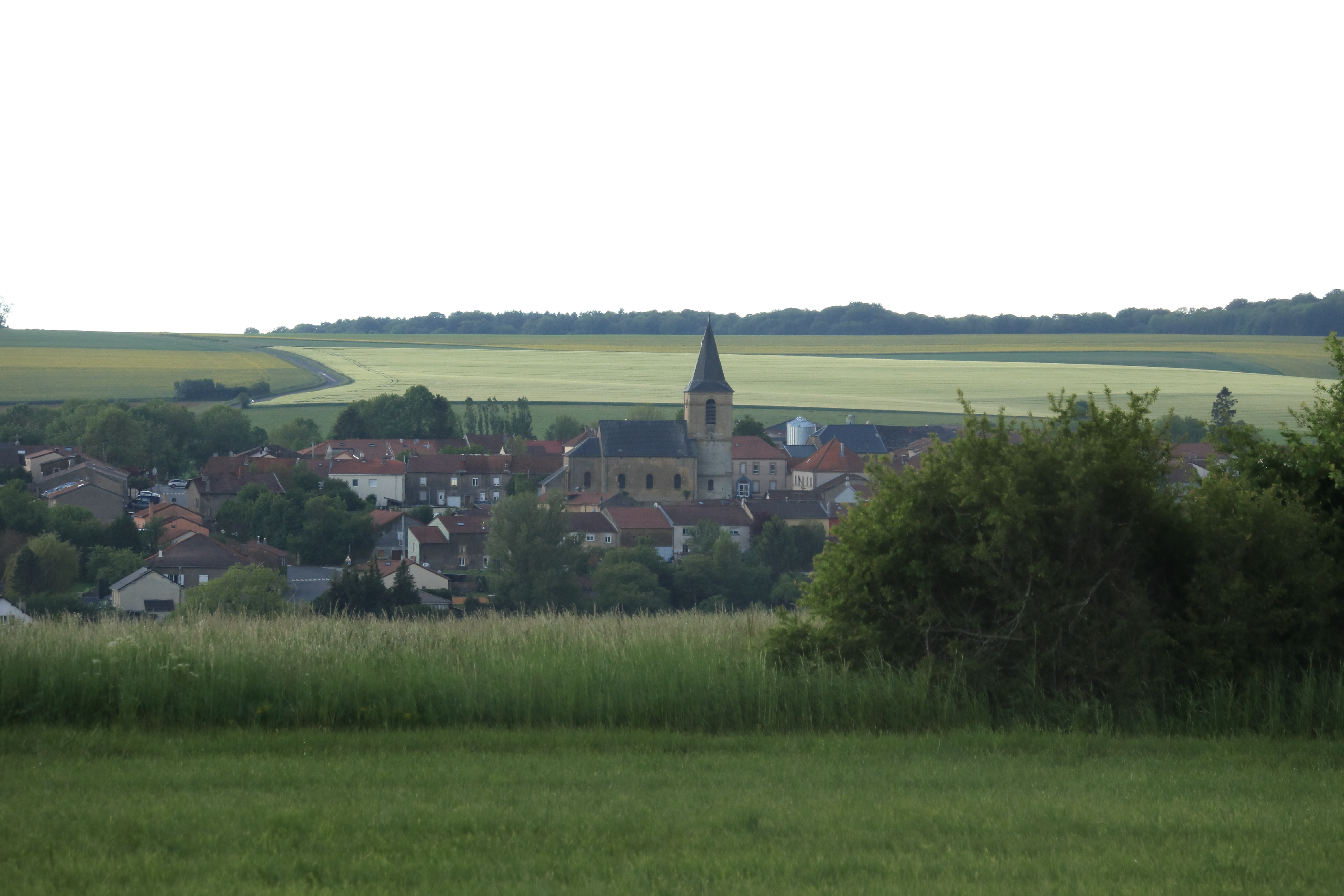 Village of Serrouville, Lorraine, France